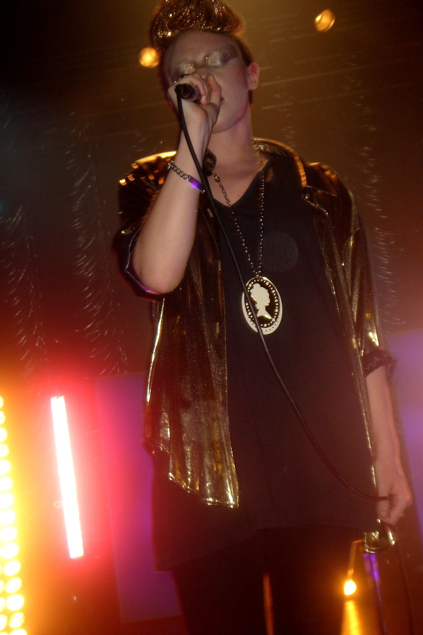 LA ROUX, KOKO CLUB, CAMDEN.